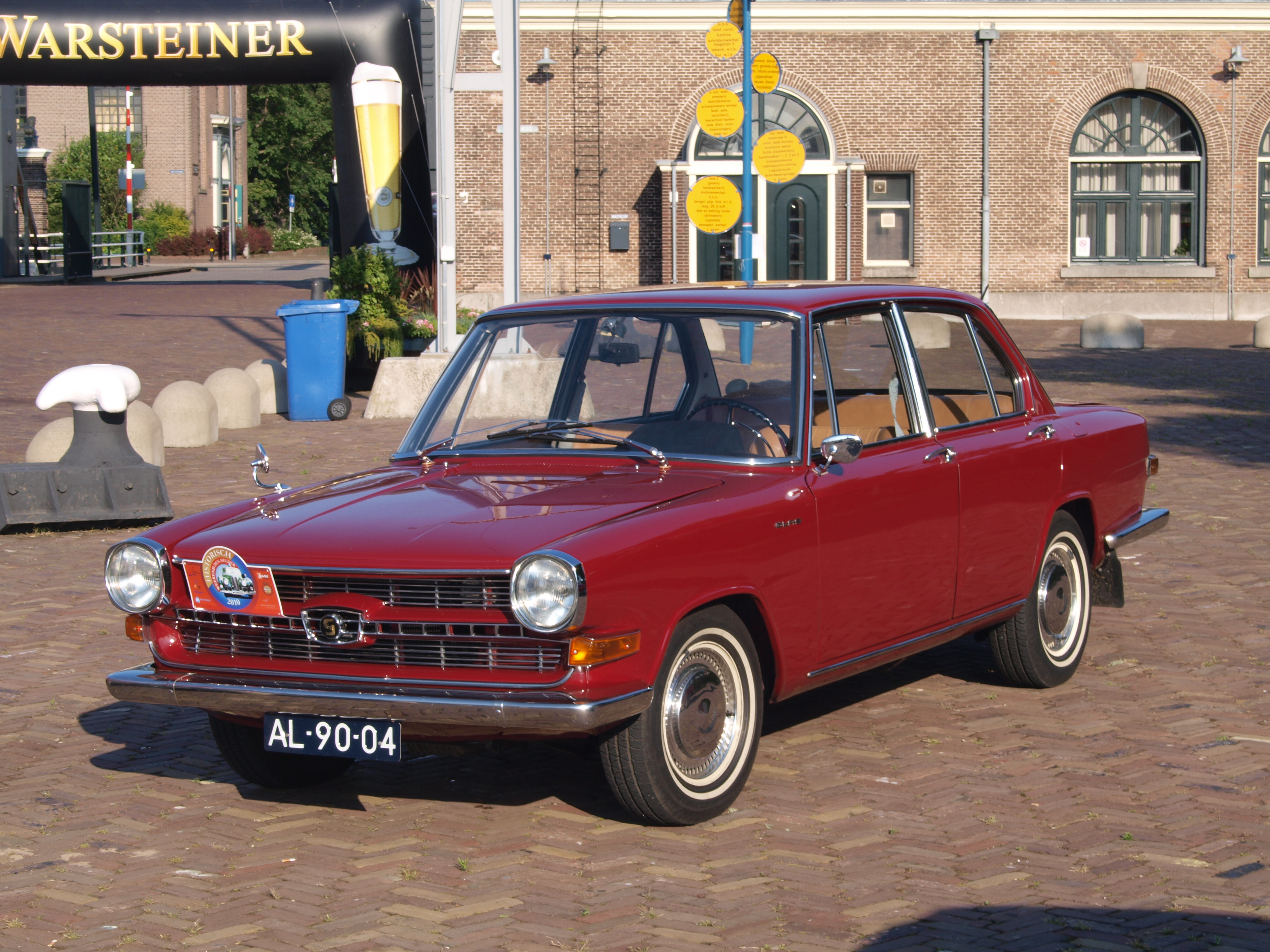 Photographed at Den Helder, The Netherlands. OLYMPUS DIGITAL CAMERA